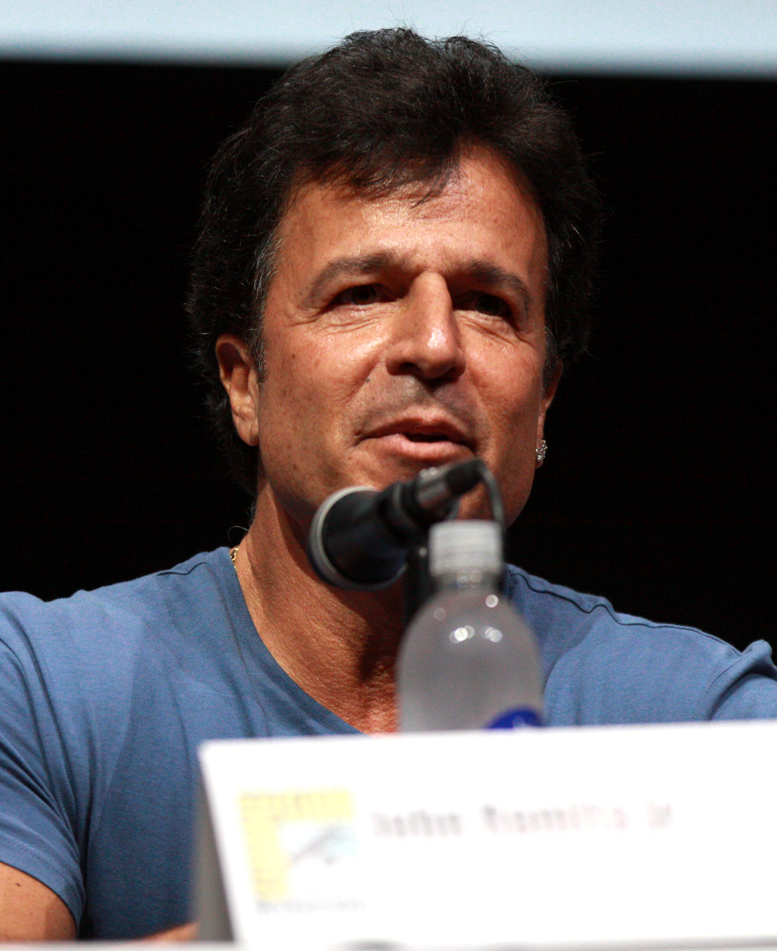 John Romita, Jr. at the 2013 San Diego Comic Con International in San Diego, California.